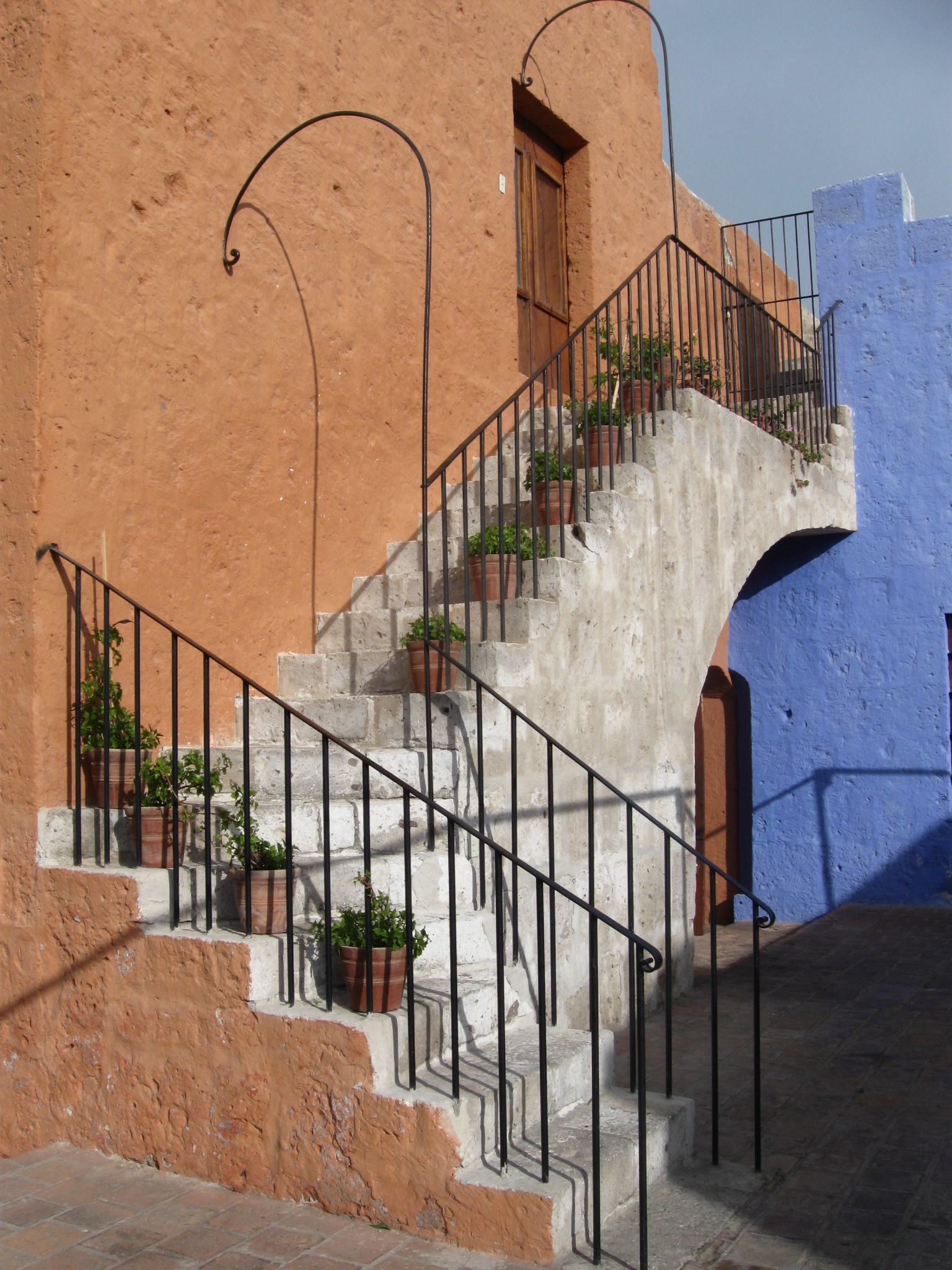 fines de 2010